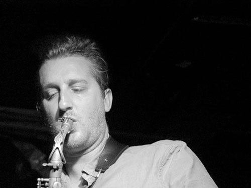 Loren Stillman in Arhus, Denmark